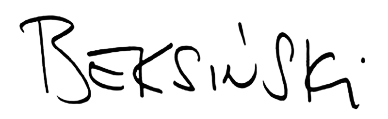 Signature of Zdzisław Beksiński